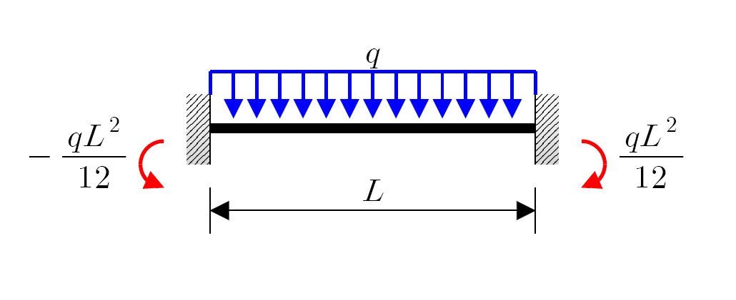 fixed end moments - uniformly distributed load of intensity q.